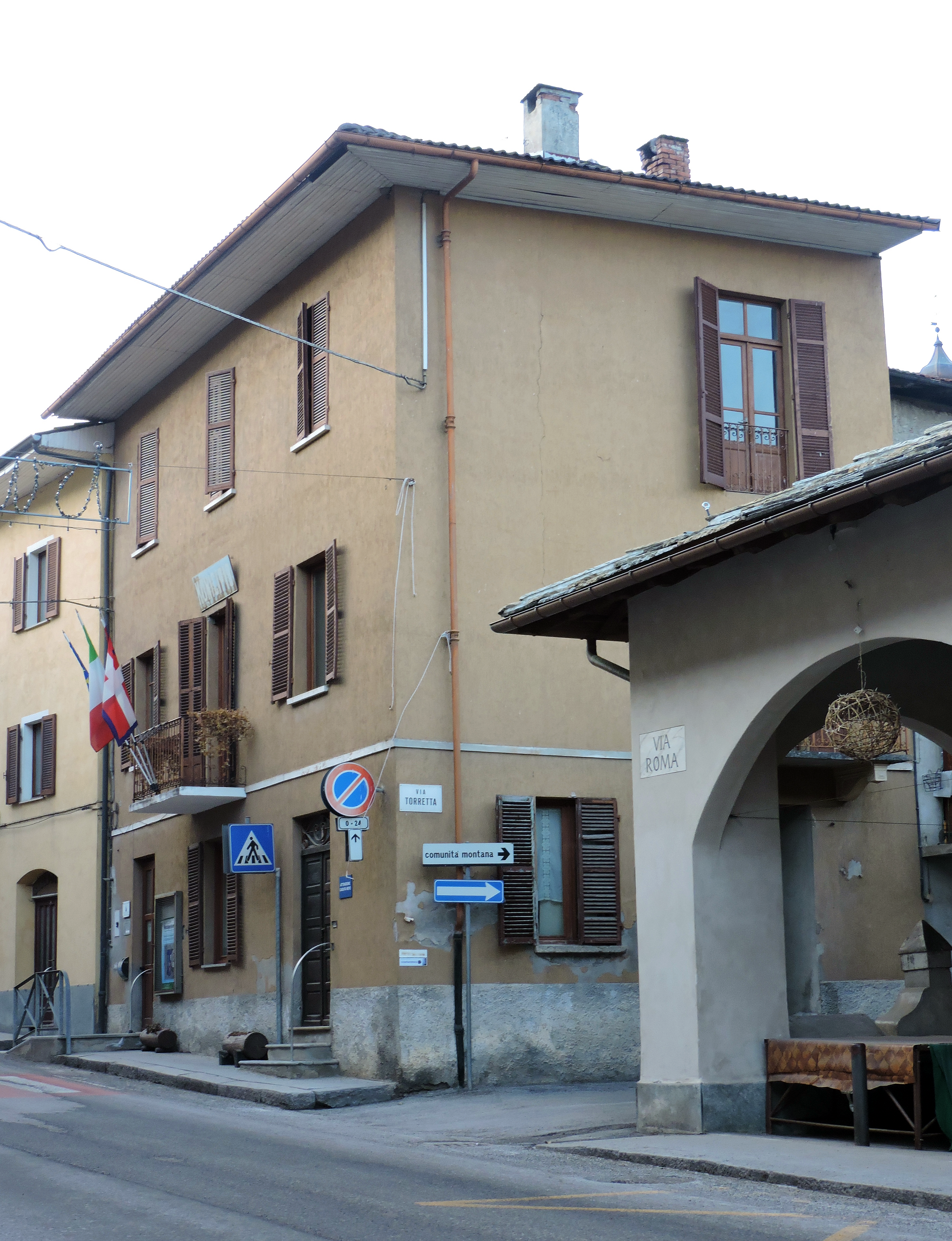 San Damiano Macra (CN, Italy): town hall